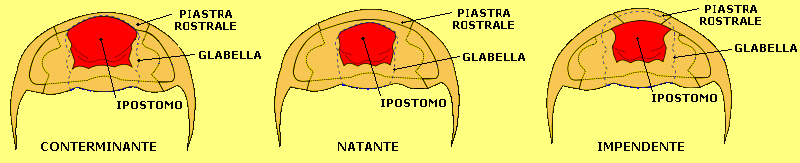 The different types of trilobites hypostome (ventral cephalic plate). Text in Italian.